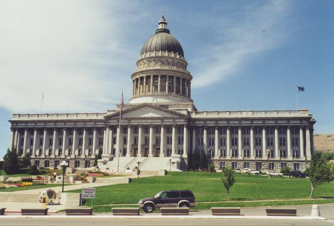 Utah State Capitol. Taken by me in 2002.